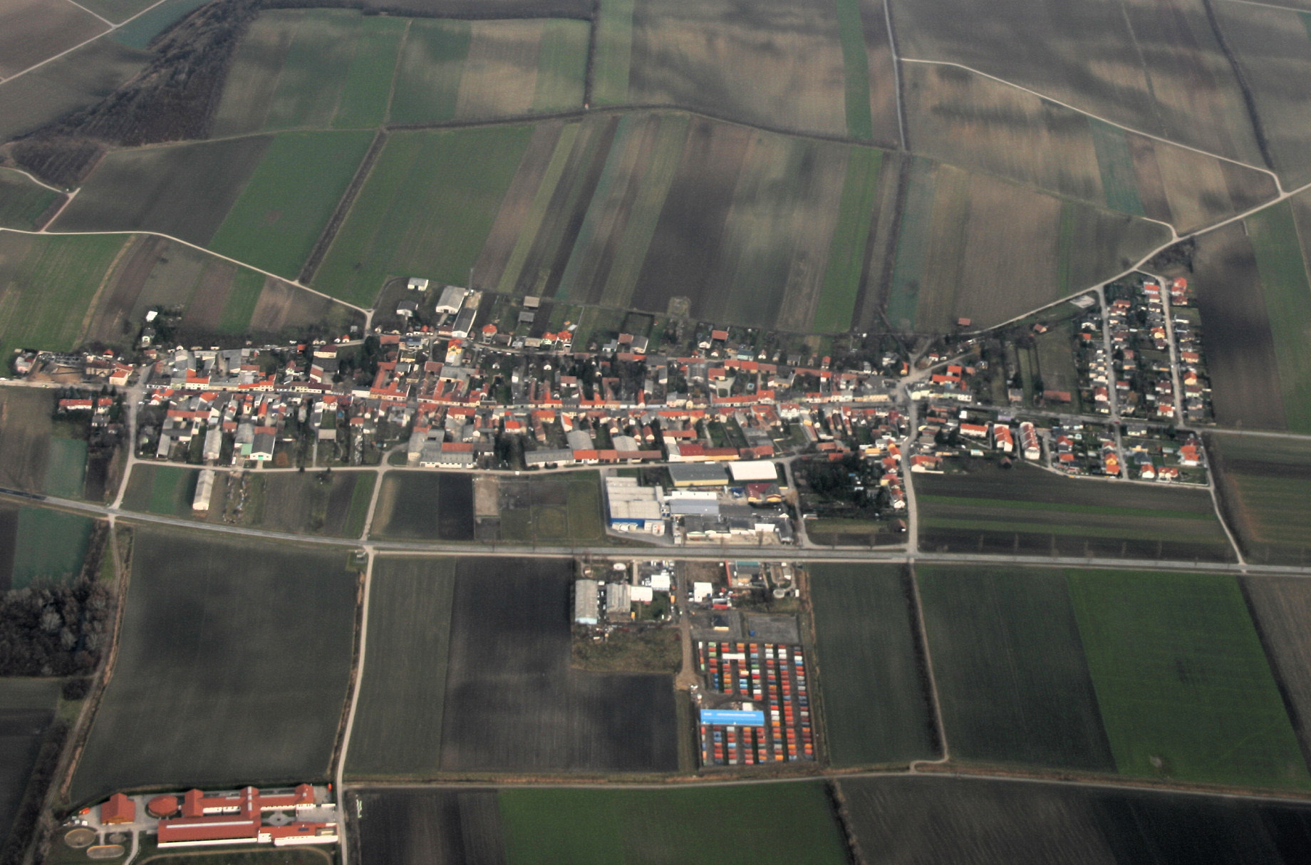 Aerial view of Gallbrunn (Bruck an der Leitha district), Austria.